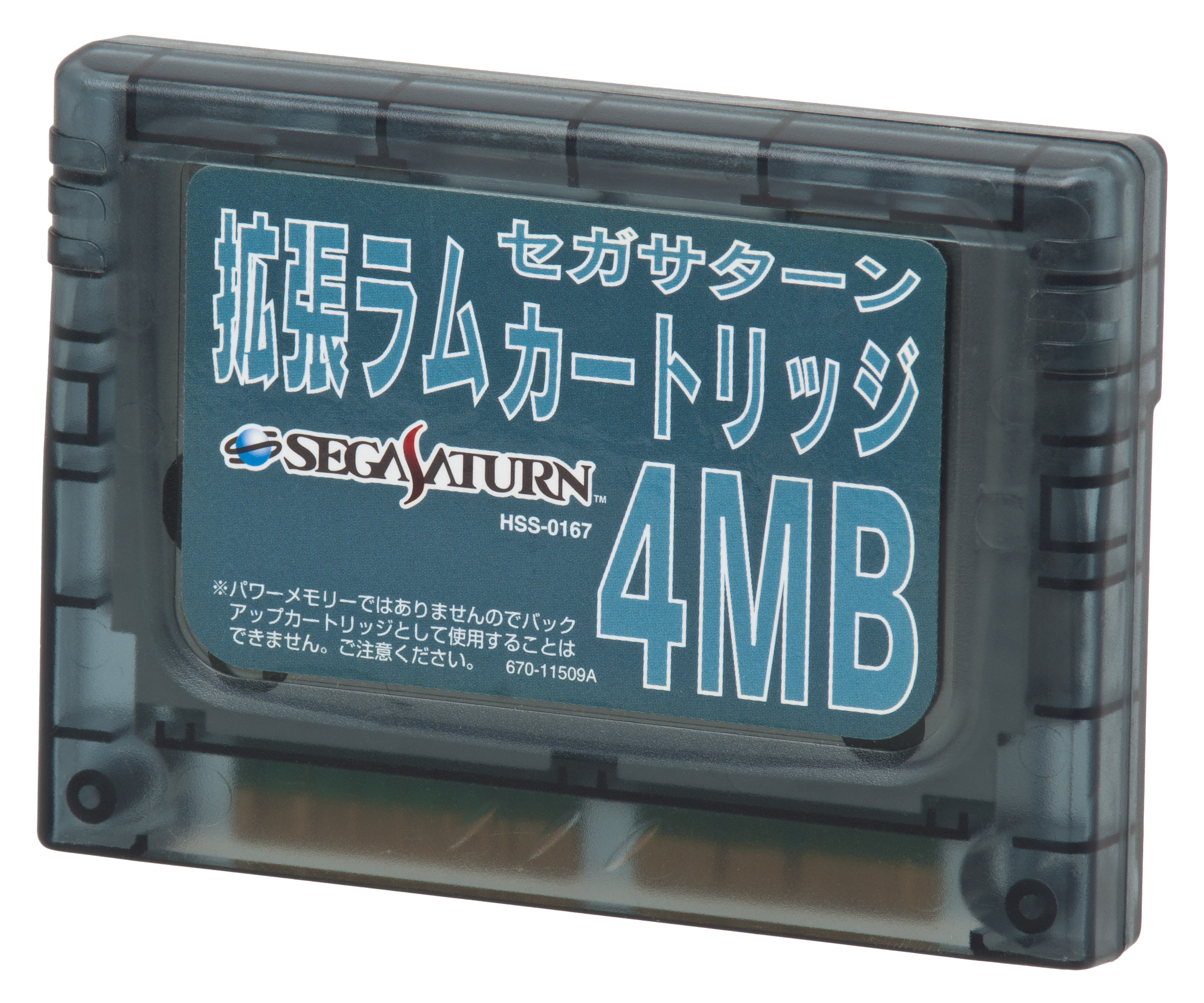 A Japanese 4MB ram cart for the Sega Saturn.